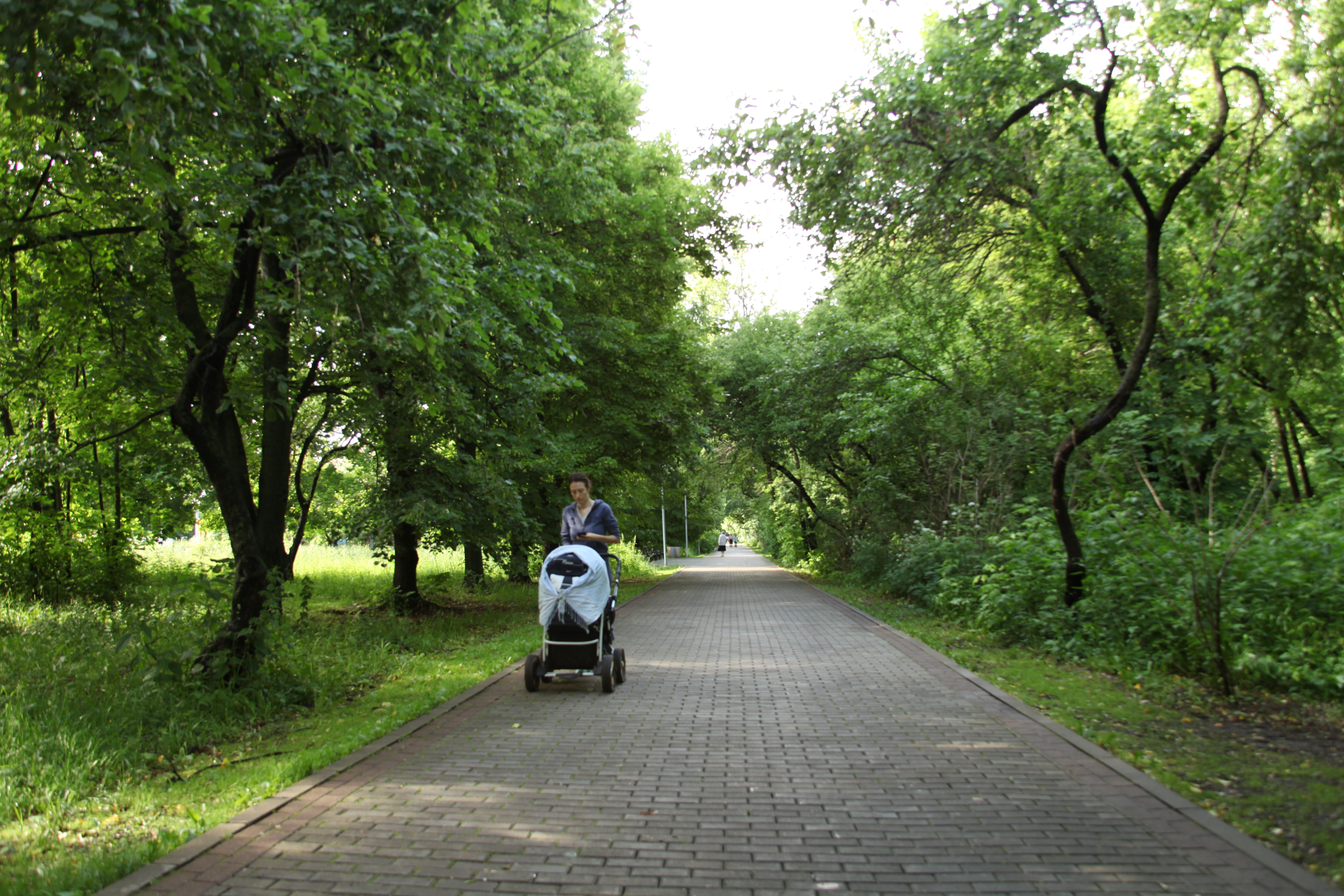 Zakharkovsky garden which makes part of Severnoe Tuhino park in Moscow, Russia